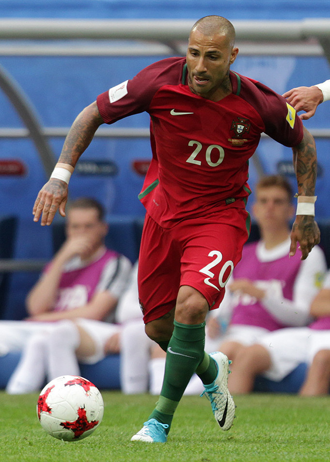 New Zealand VS. Portugal 0 - 4, 24 June 2017